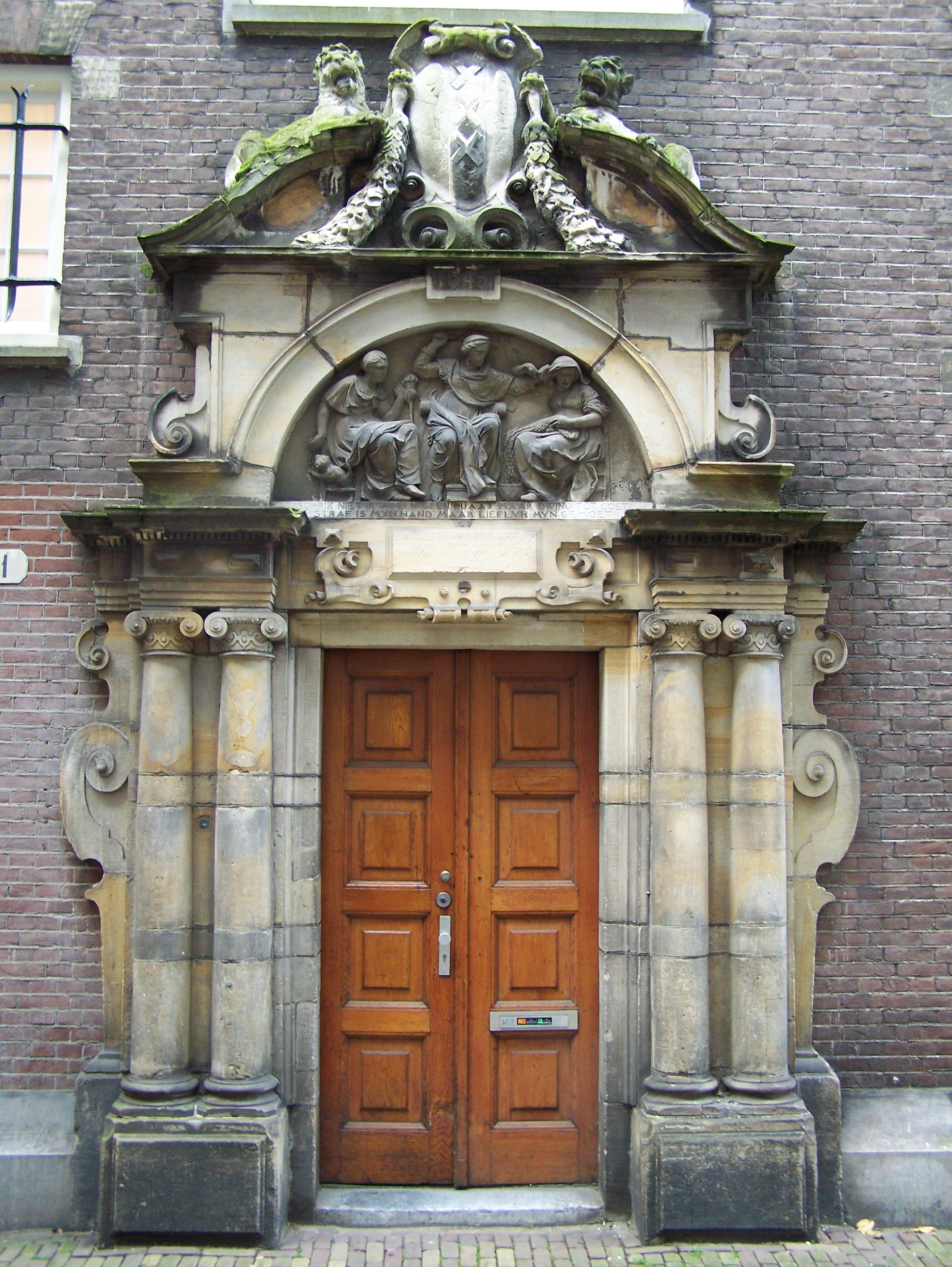 Gate to the former "Spinhuis" with a relief made by Hendrick de Keyser in 1607. Placed at the Spinhuissteeg in Amsterdam.